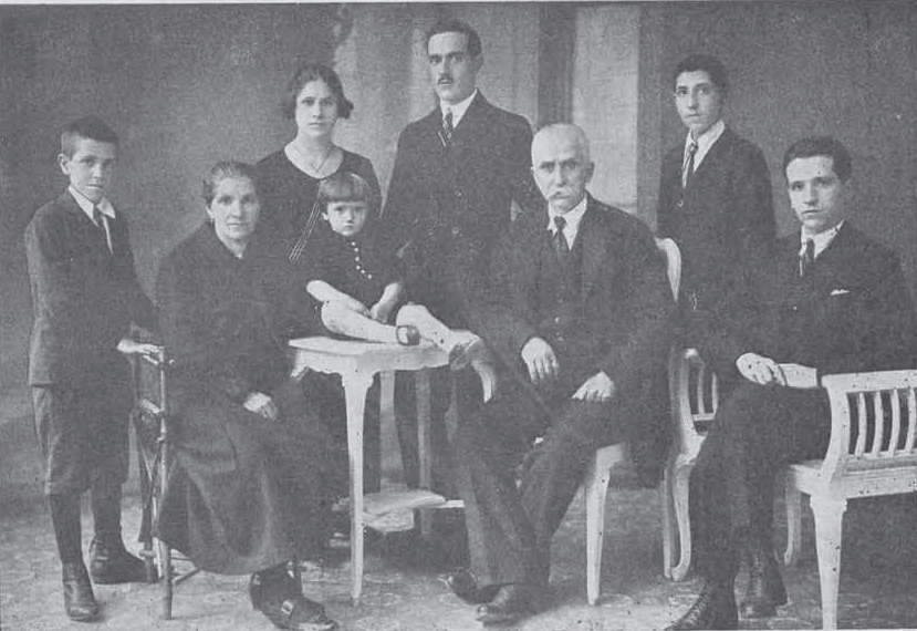 Anastas Lozanchev and his family in Bitolya